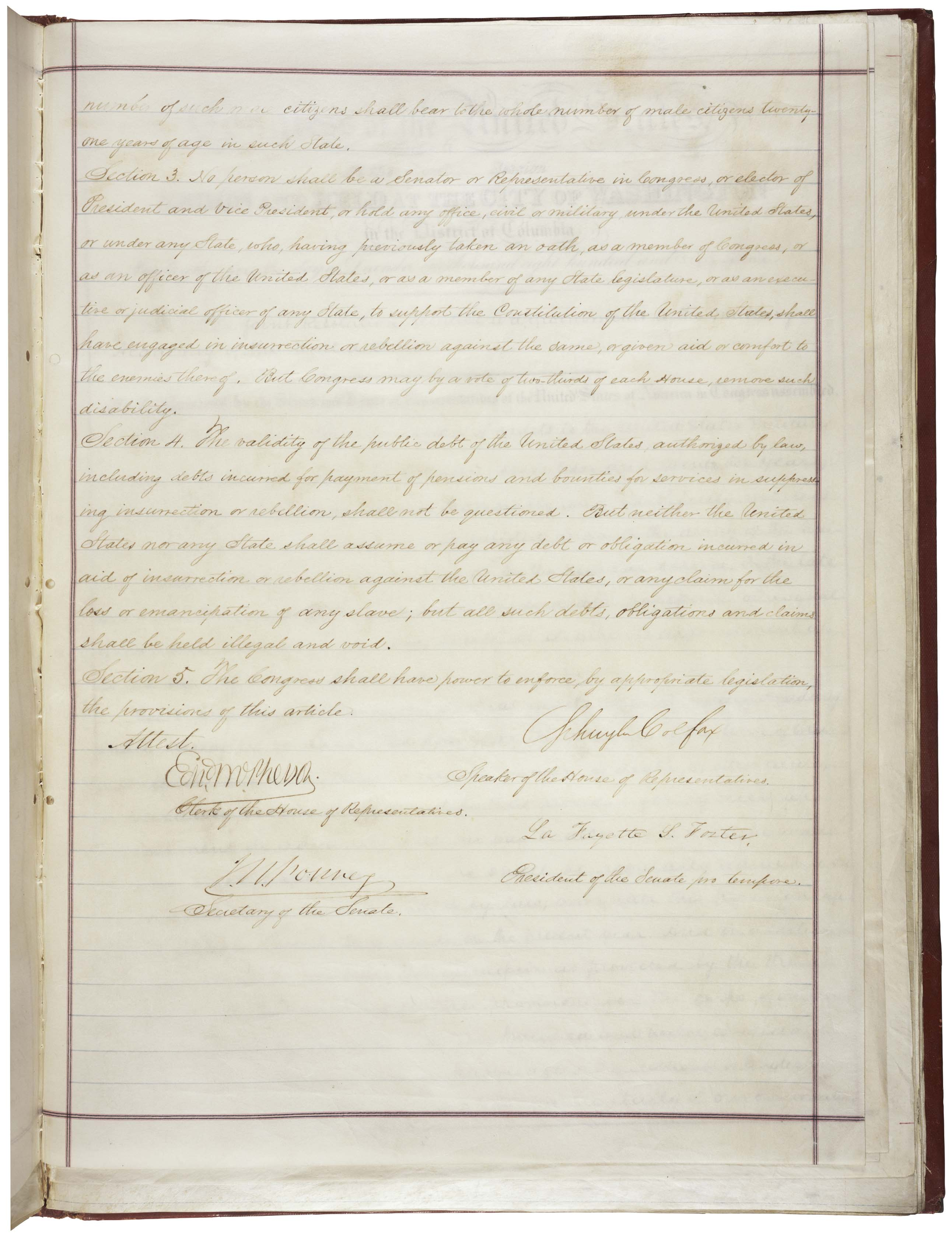 14th Amendment of the United States Constitution, page 2.